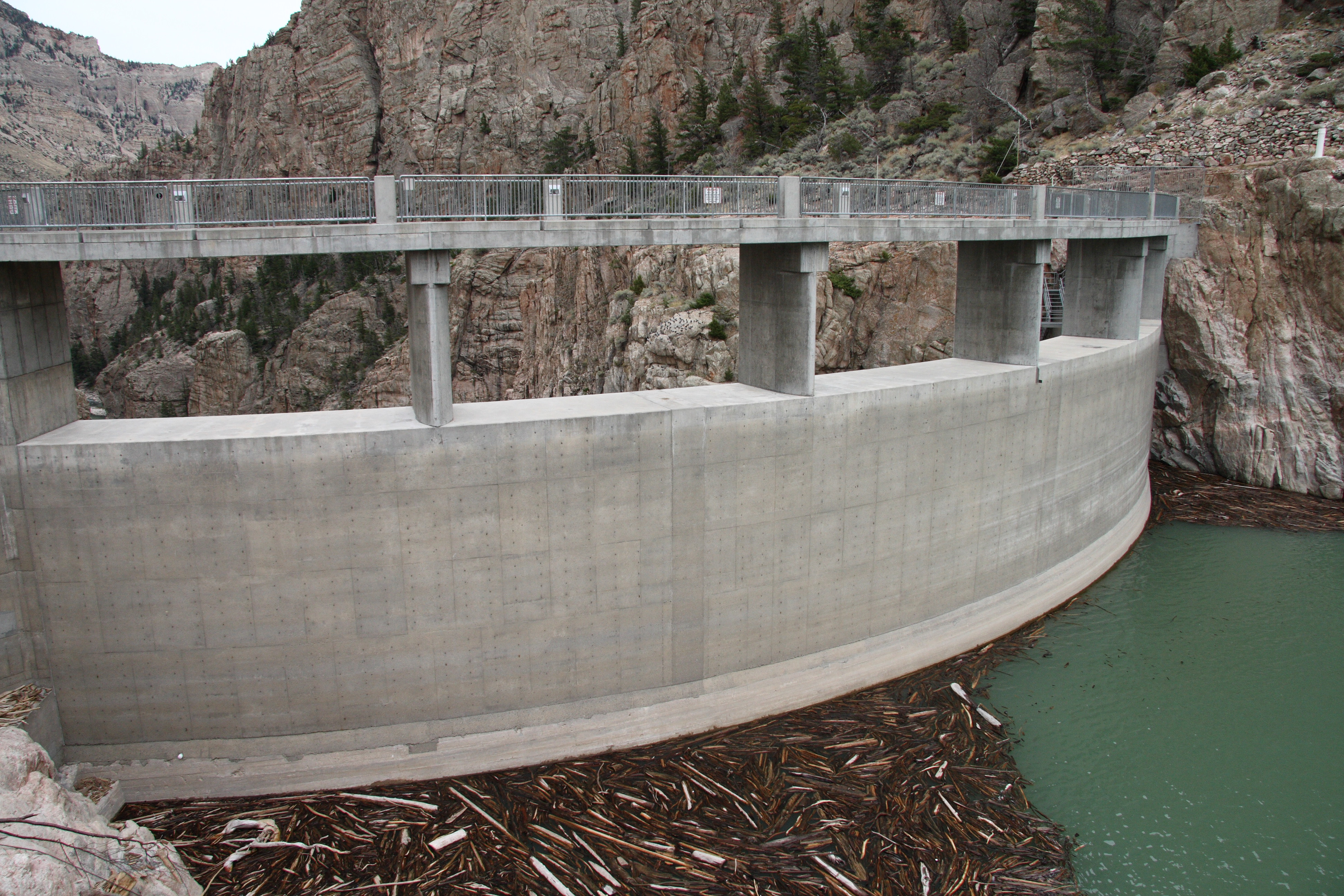 Buffalo Bill Dam, Wyoming - upstream face